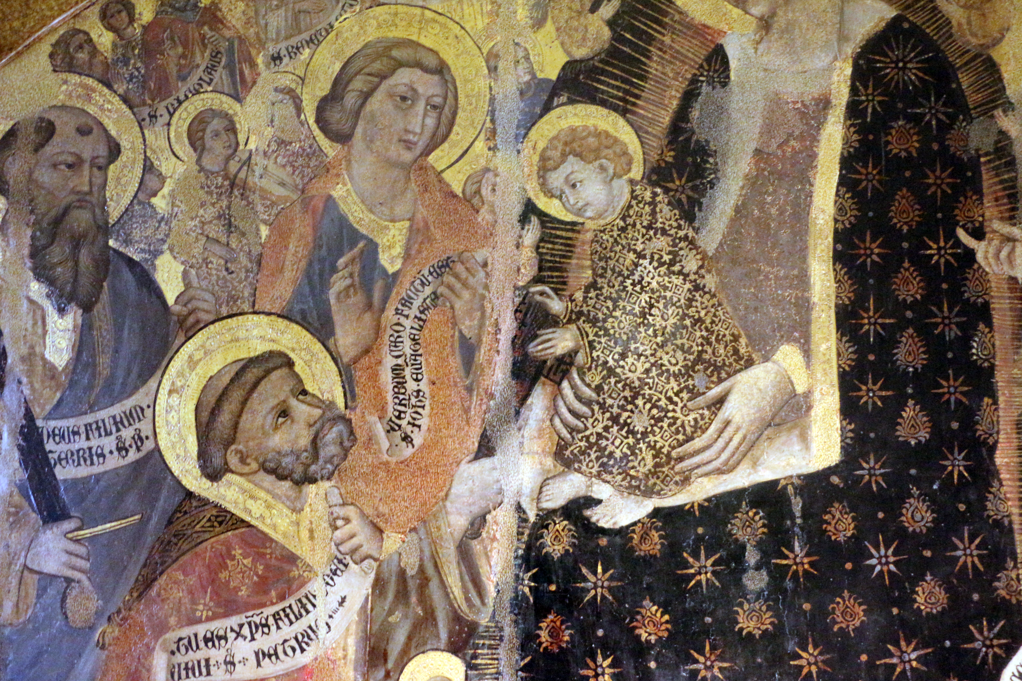 Palazzo Buonaccorsi (Macerata) - Old Masters